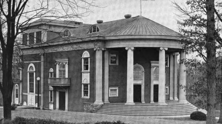 Odeon Theater, National Park Seminary, Silver Spring, Maryland. The theater was destroyed by fire in 1993.